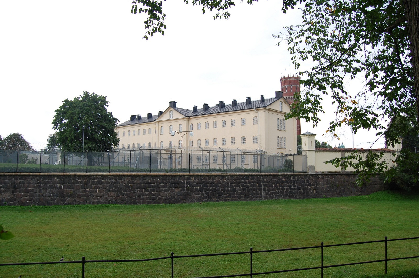 Kalmar prison from south.